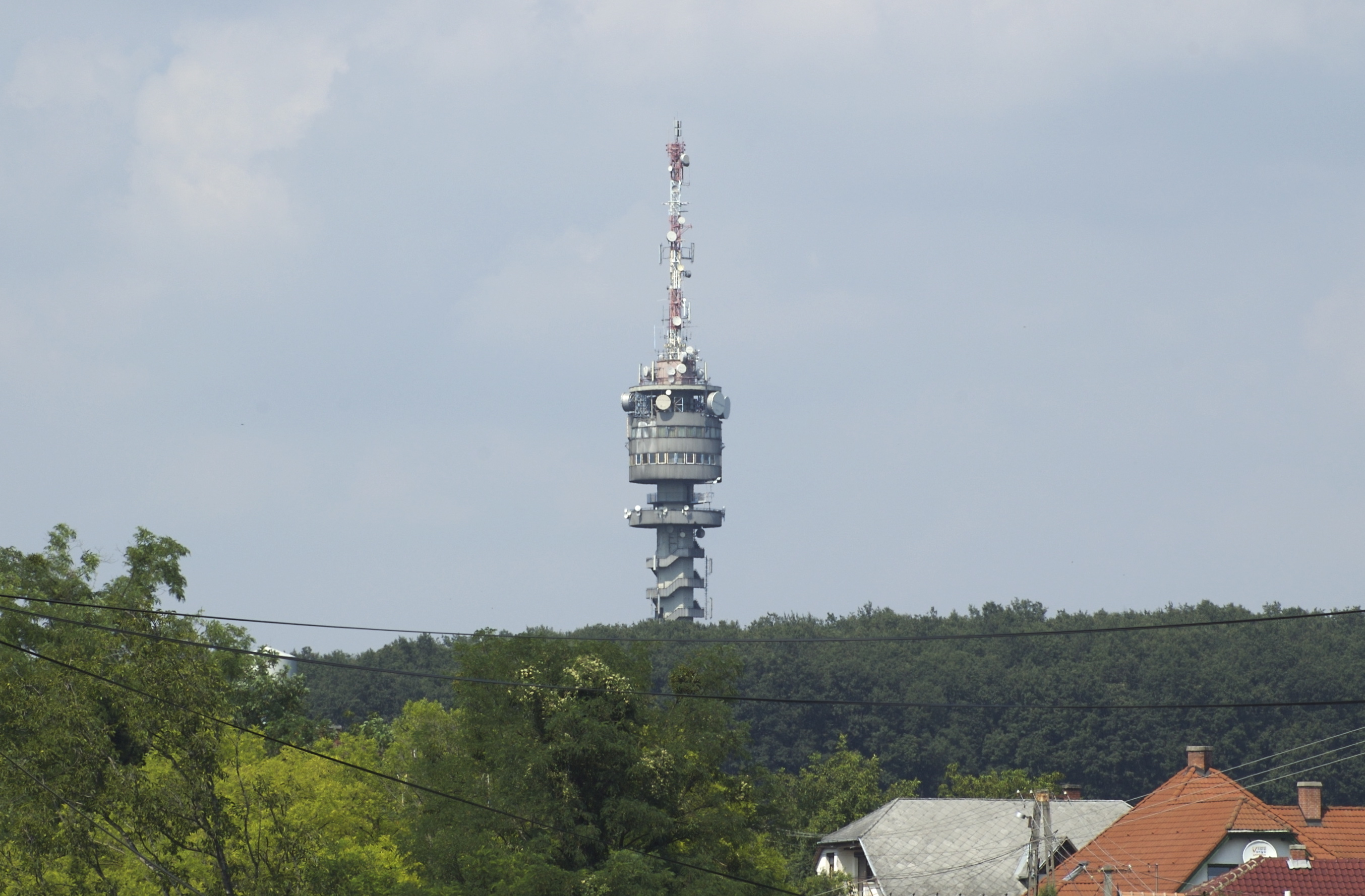 The Bazita television tower, a view from Bazita village (Hungary)